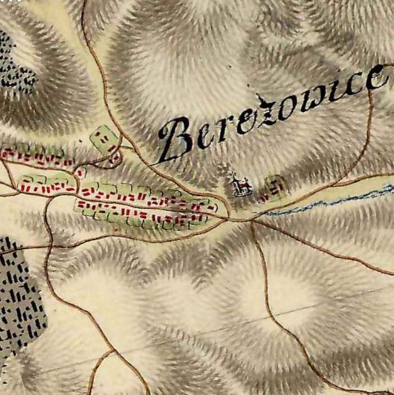 Mala Berezovytsia